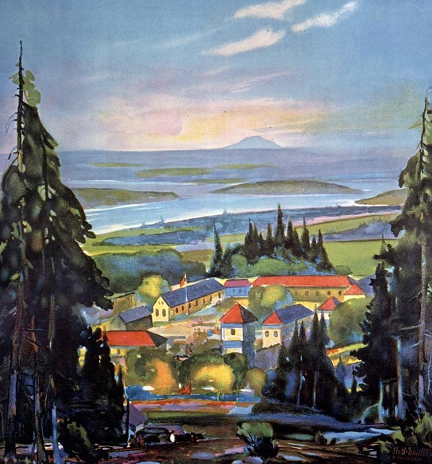 Fort Vancouver Erected, 1825, by Henry Kent (from a lithograph by Cleland Bell), ca. 1925. This paiting was first published, in 1925, in a calendar distributed by the HBC Original caption: “Fort Vancouver was built beside the Columbia River on land that is now part of the State of Washington. It served as a major western trading post and the HBC Pacific headquarters until 1849. As you view the calendar image, consider the following: How does the artist use a variety of shapes to create an expressive landscape? What effect does the artist’s use of bold primary colours have? Do the trees in the foreground, framing the scene, make you feel like a spectator or a participant? Explain your thinking.”